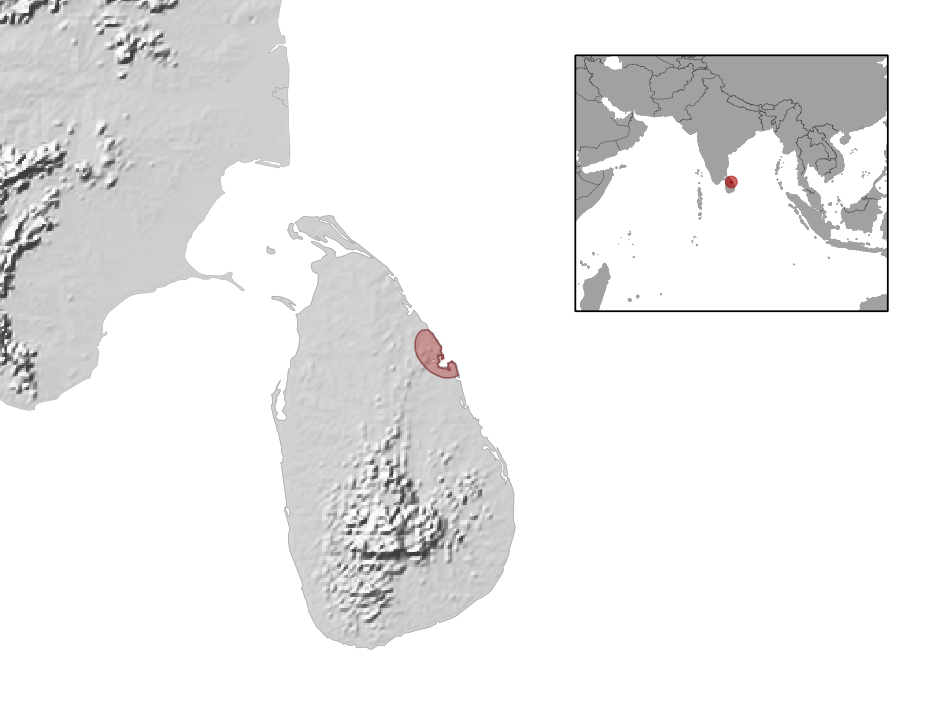 geographic distribution of Lygosoma singha